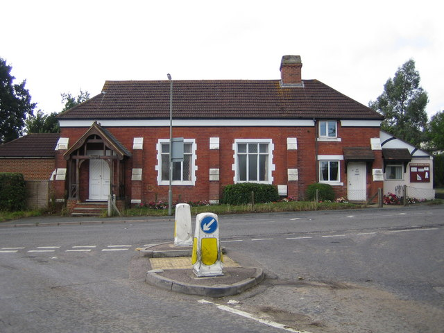 Fetcham Reading Room. Built around 1885 for the benefit of agricultural and domestic workers in the area, it can be found at 181 Cobham Road, opposite the road junction with River Lane. It appears to be still actively used by painting and U3A groups. The Keep Left Bollard is the same one shown in Andrew's photo 51474.